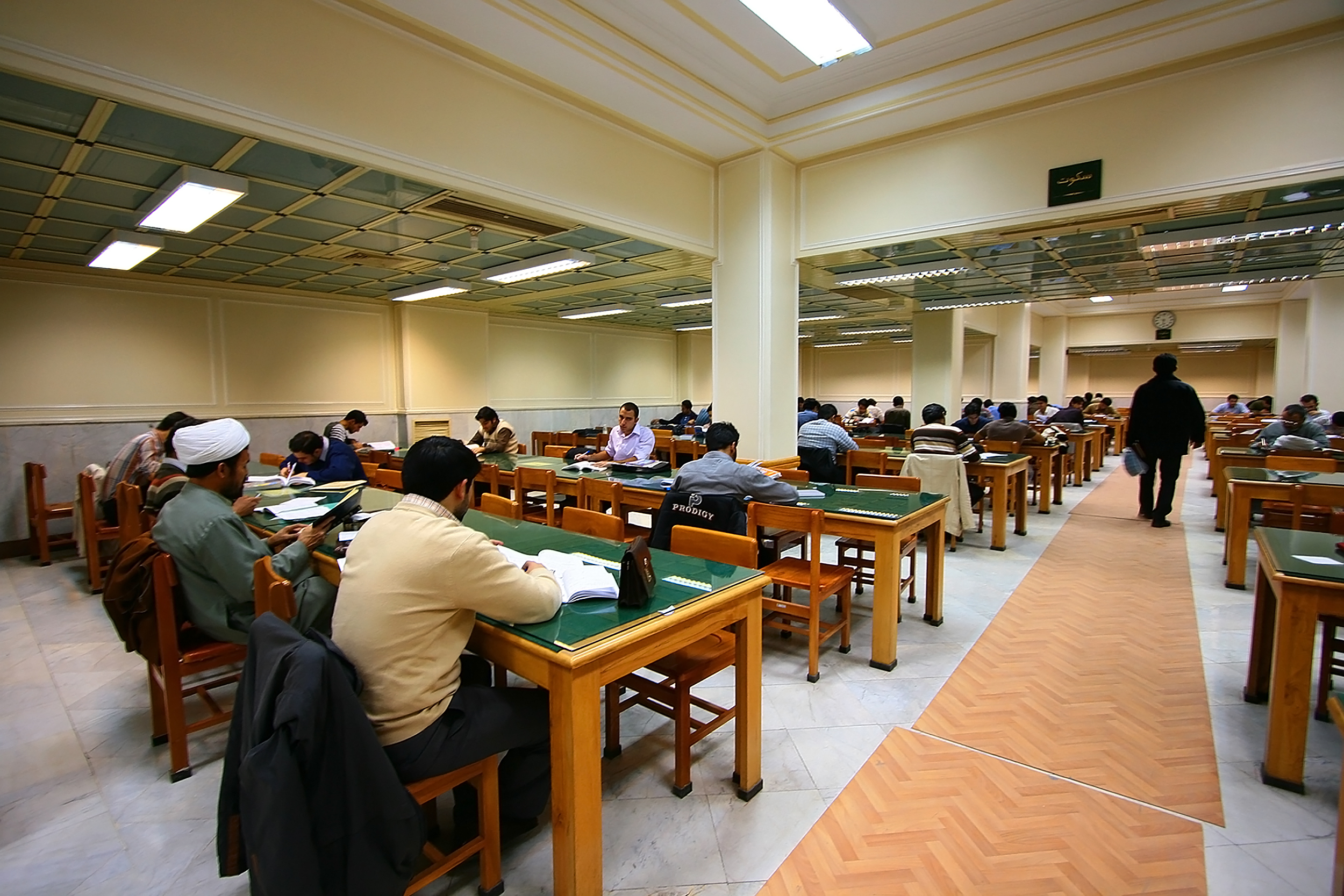 Qom County (Persian: قم) is the only county in Qom Province in Iran, with which it is coextensive. The capital of the county is Qom. At the 2006 census, the county's population was 1,036,714, in 262,313 families. The county has five districts: Jafarabad District, Khalajastan District, the Central District, Kahak District, and Salafchegan District. The county has six cities: Dastjerd, Jafariyeh, Kahak, Qom, Qanavat, and Salafchegan.